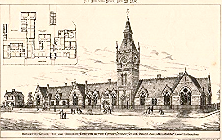 Holme Hill School Grimsby The Builder, 29th September 1876